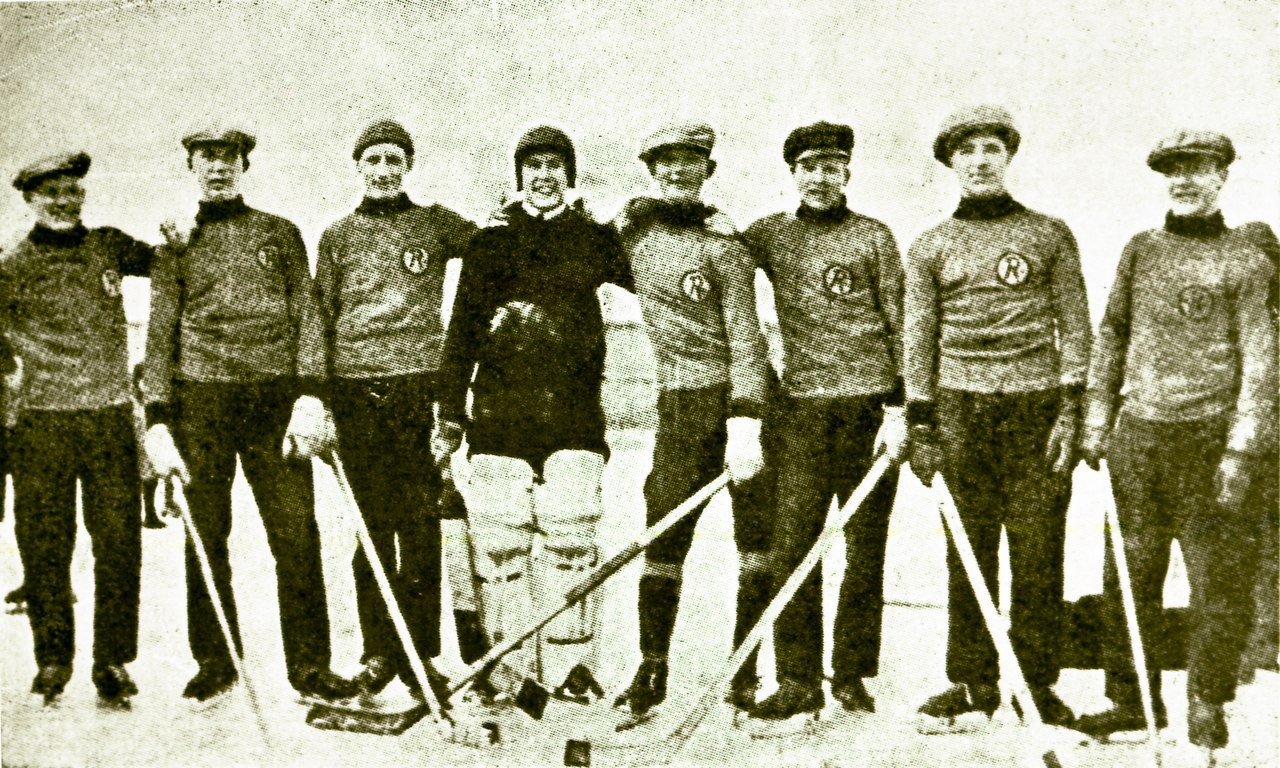 First Finnish Champions in ice hockey 1928, Viipurin Reipas. Team roster from left to right: Gösta Berg, Erkki Kariluoma, Allan Lagerström, Leo Tukiainen, Onni Peltonen, Eino Louhi, Eino Turunen, Walter Itäharju.